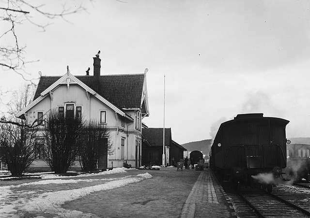 Roverud Station on the Solør Line in Kongsvinger, Norway